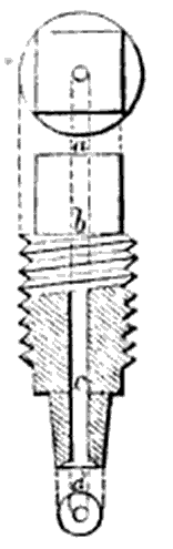 Touch hole liner